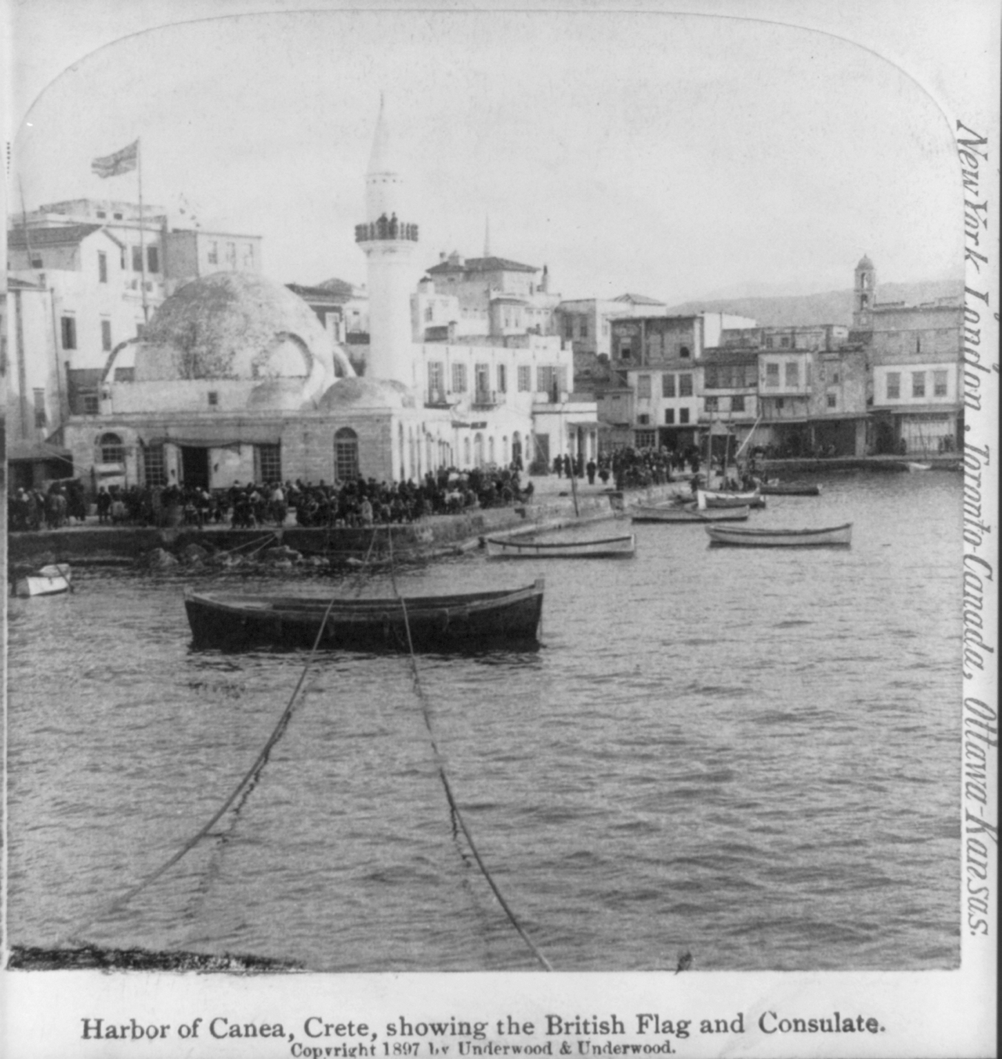 Harbor of Chania (Canea), Crete, showing the British flag and Consulate, in 1897